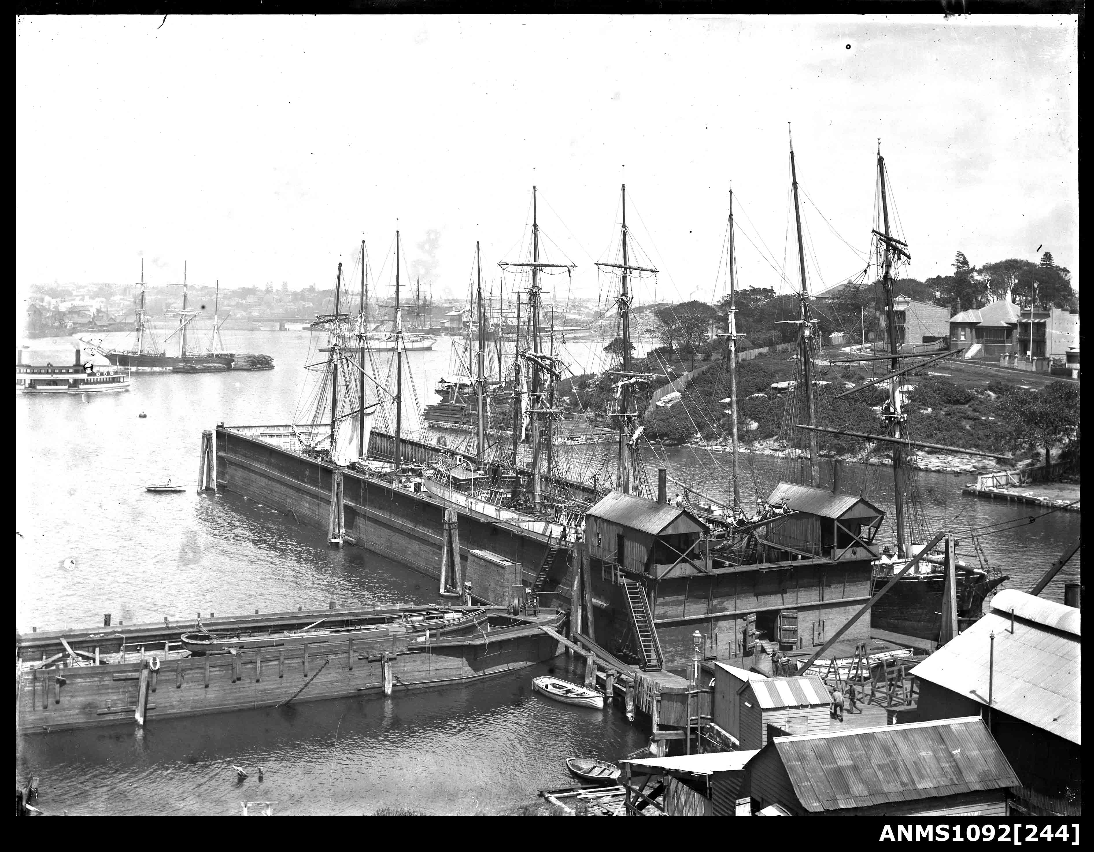 This photo is part of the Australian National Maritime Museum’s William Hall collection. The Hall collection combines photographs from both William J Hall and his father William Frederick Hall. The images provide an important pictorial record of recreational boating in Sydney Harbour, from the 1890s to the 1930s – from large racing and cruising yachts, to the many and varied skiffs jostling on the harbour, to the new phenomenon of motor boating in the early twentieth century. The collection also includes studio portraits and images of the many spectators and crowds who followed the sailing races. The Australian National Maritime Museum undertakes research and accepts public comments that enhance the information we hold about images in our collection. If you can identify a person, vessel or landmark, write the details in the Comments box below. Thank you for helping caption this important historical image. Object number: ANMS1092[244]